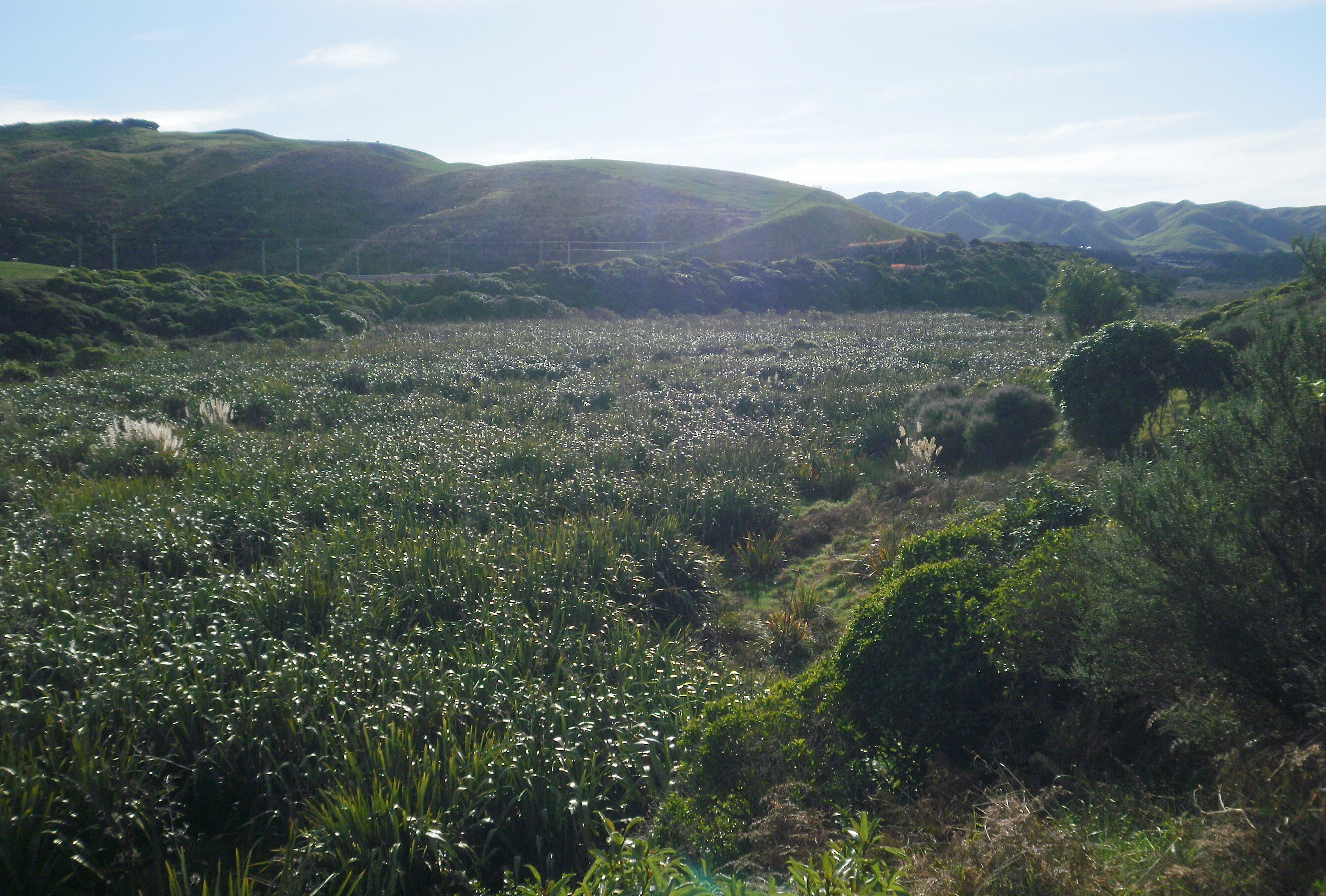 Taupo swamp, wetland in Plimmerton, Wellington, New Zealand